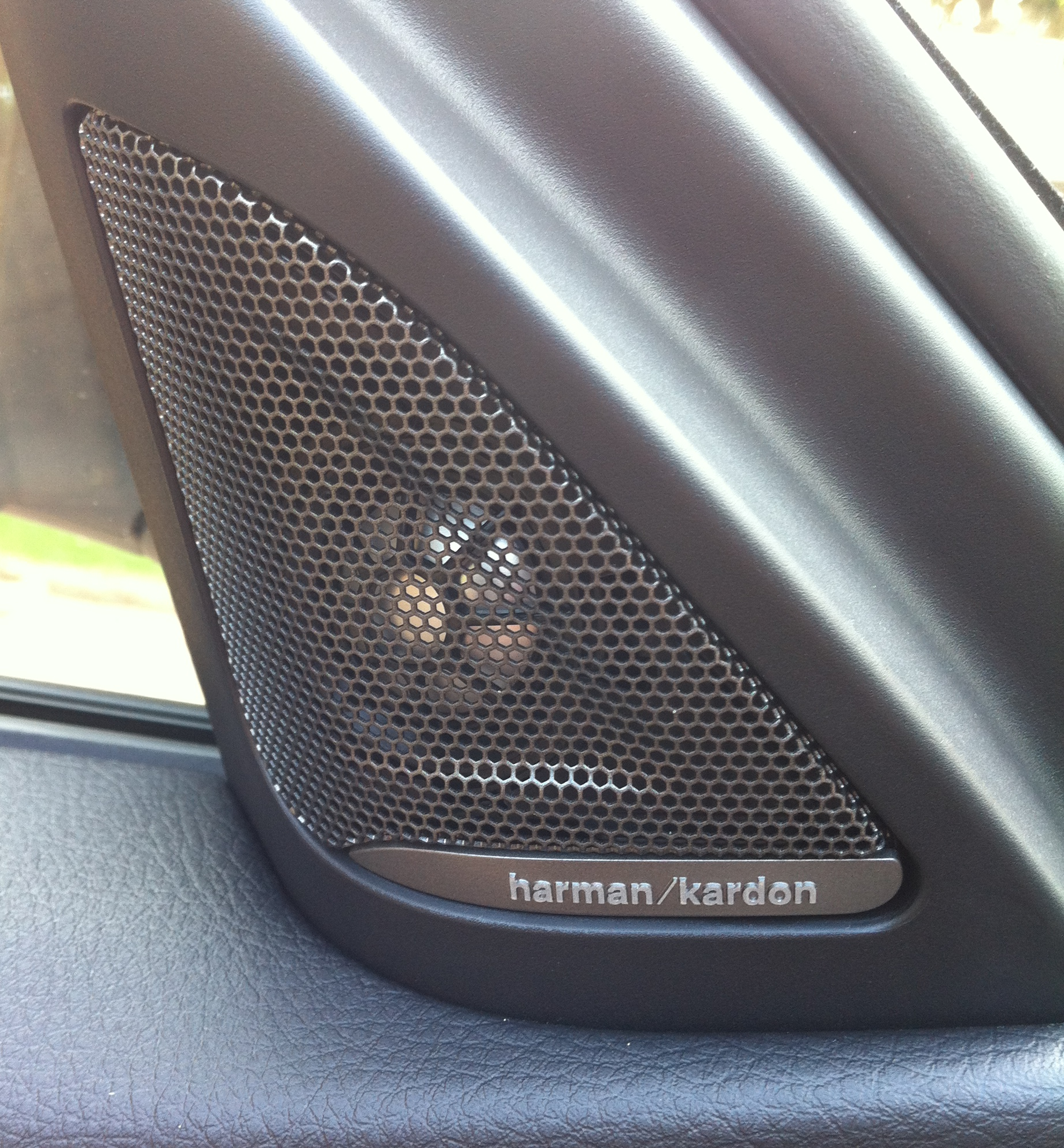 Photograph of Harman Kardon speaker in car audio system of a 2012 BMW 328i.